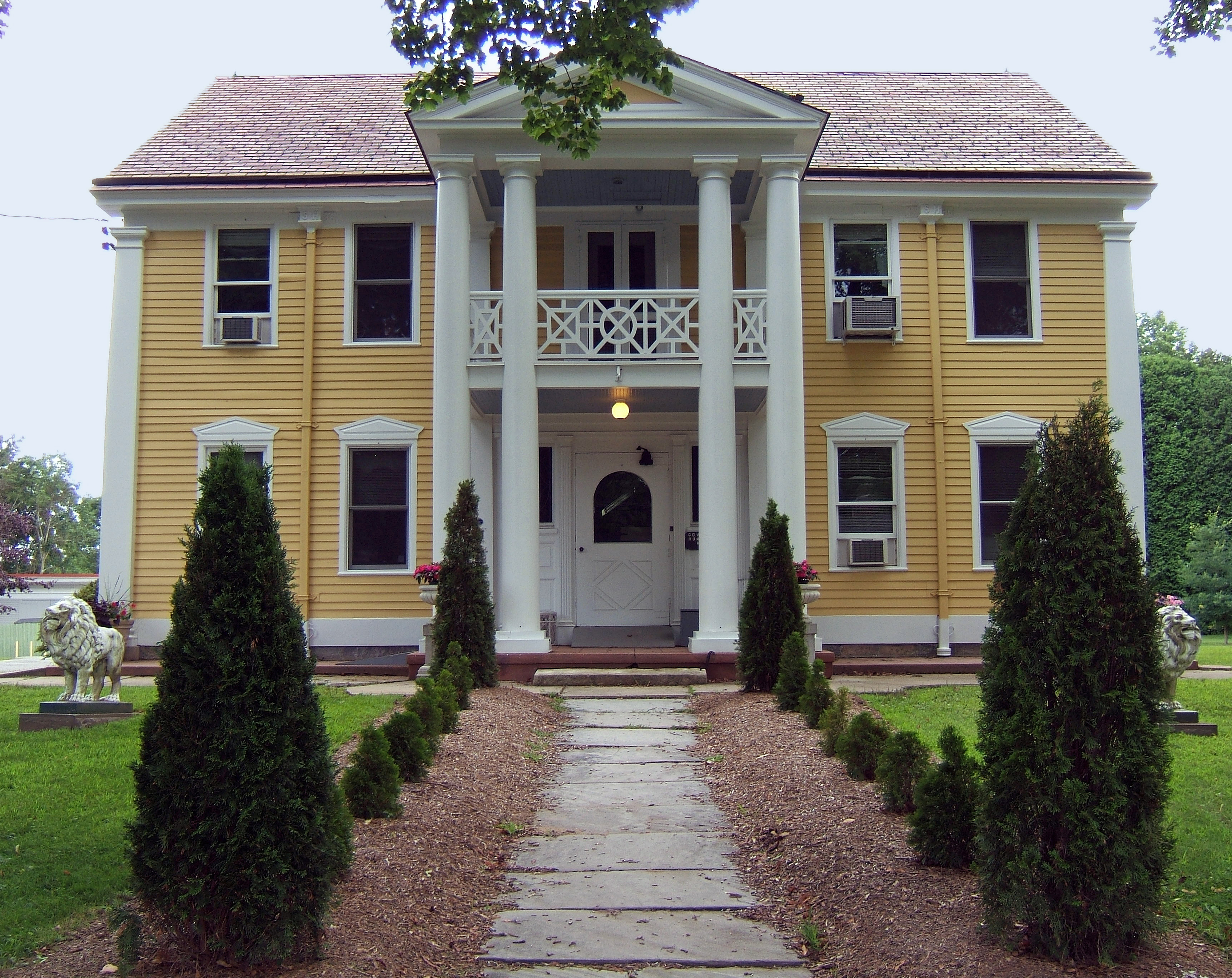 This house, where Huntington lived, was built in 1783